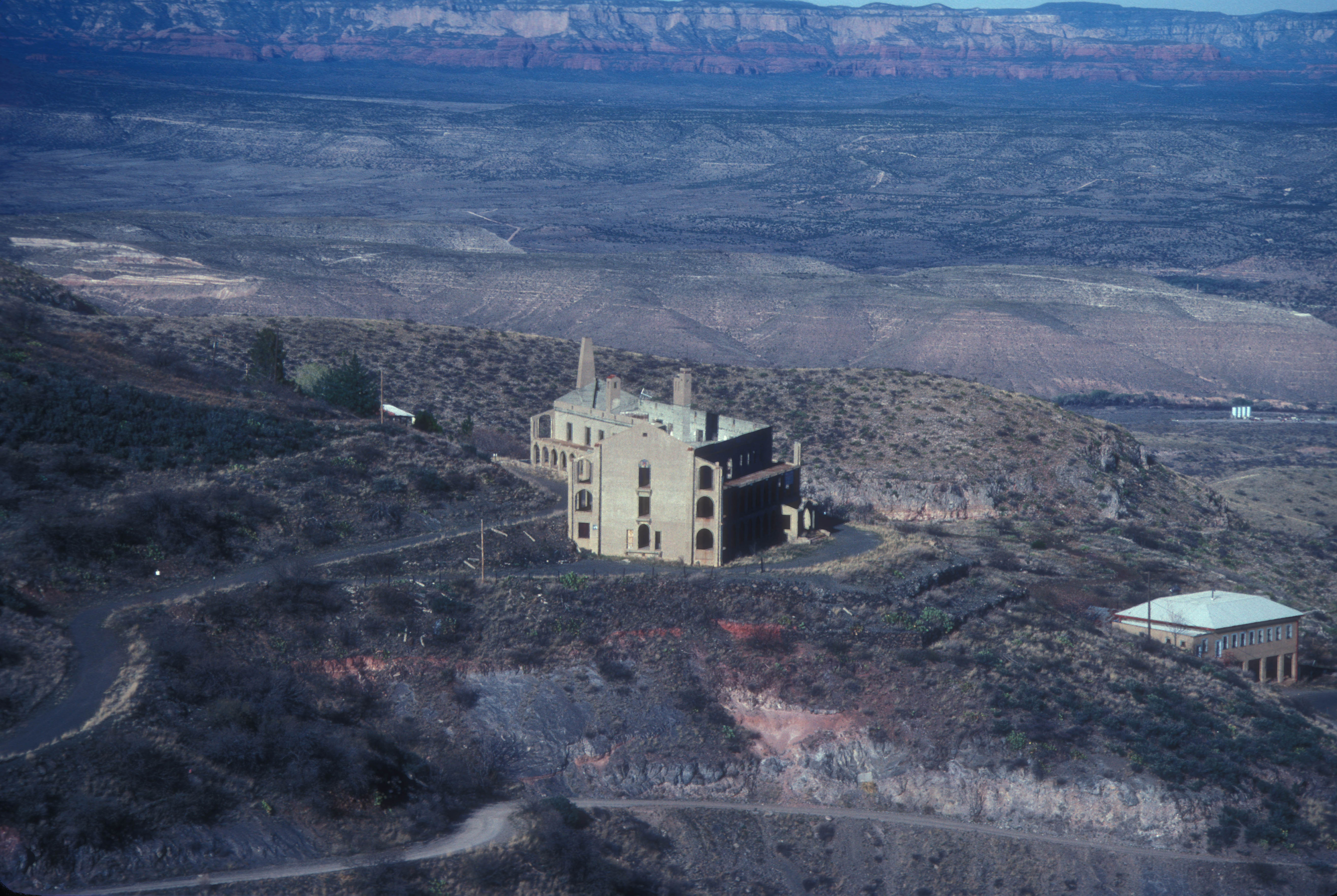 The 'Little Daisy Hotel' of Jerome State Historic Park — in Jerome, Arizona. Built by "Rawhide Jimmy" Douglas, owner of the Little Daisy Mine, as a dormitory for the miners in the early 20th-century.